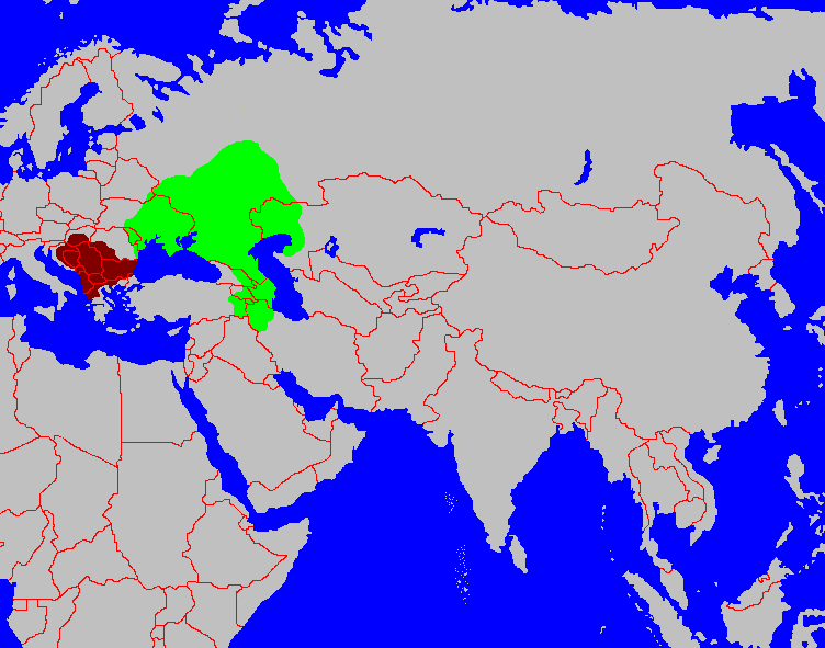 Map of the Great-Bulgaria, c. 650, and the Danubian Bulgar state, 8th-10th centuries. Limegreen: Great-Bulgaria; Dark red: Danubian Bulgarian state.